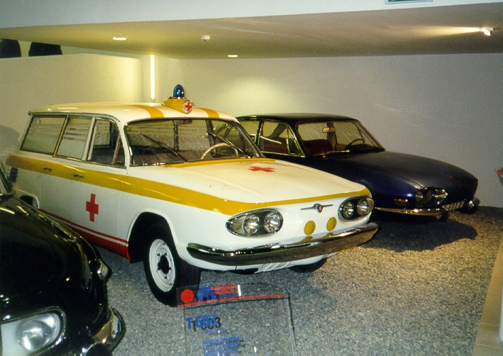 Tatra 603A Ambulance - Prototype Tatra Bratislava (1964) Photo: Ondrej Ertl (2003)